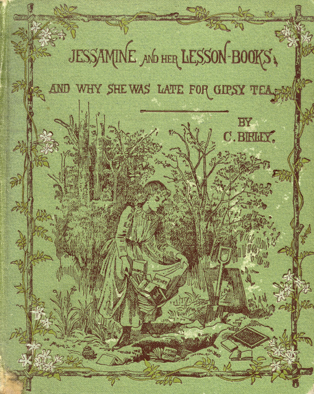 Book cover - originally published in 1887